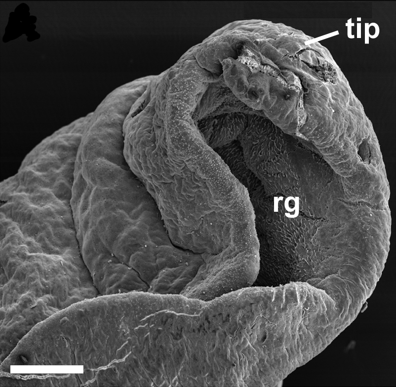 A low-power scanning electron microscopy (SEM) micrograph showing the rhinophore tip of Aplysia californica. rg - rhinophore groove tip - rhinophore tip Scale bar is 300 μm.